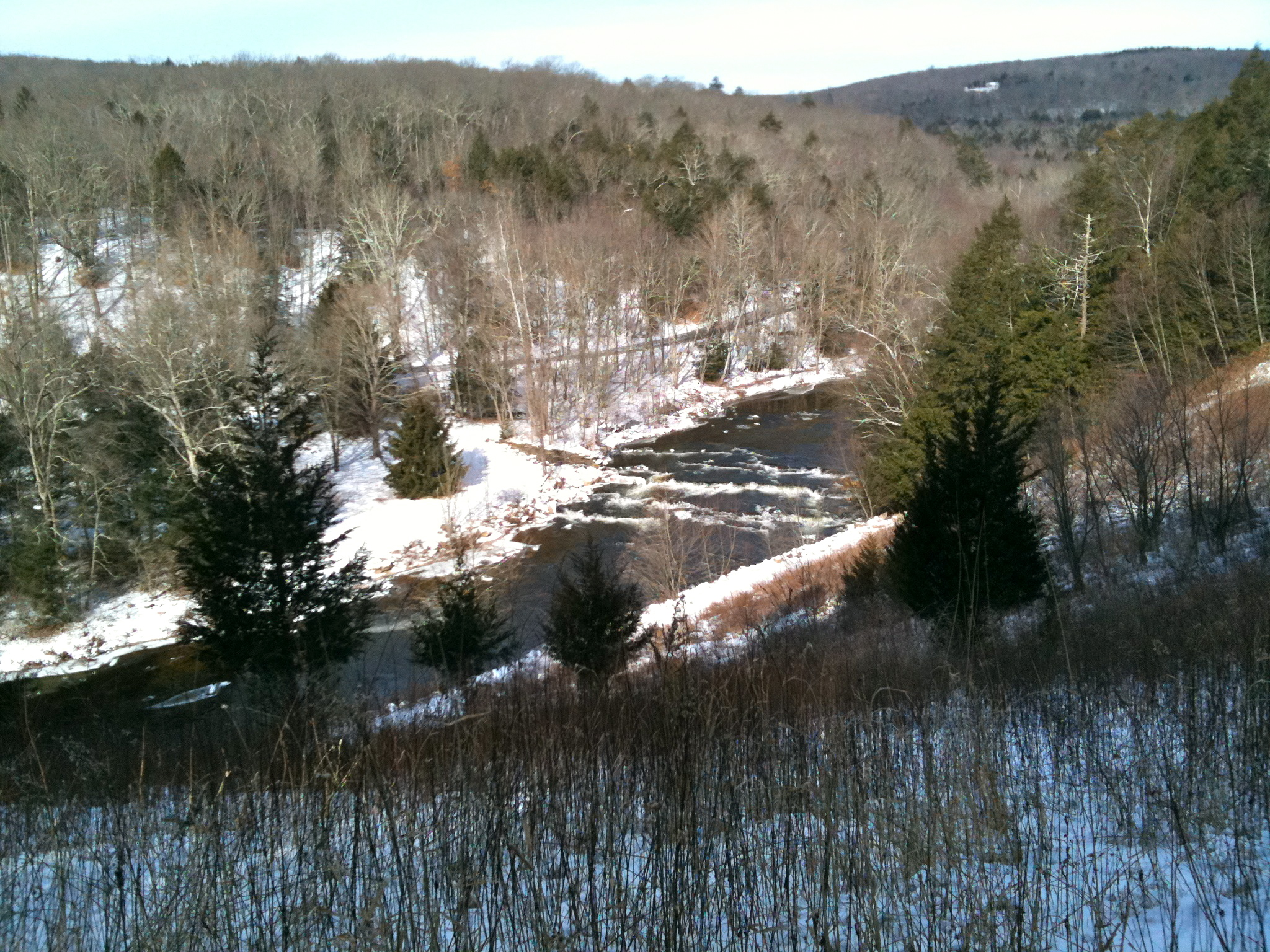 Salmon River Trail Salmon River above the Comstock Bridge as seen from the CFPA Salmon River blue-blazed trail.